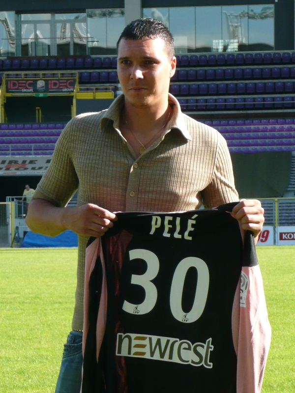 Yohann Pelé, french goalkeeper playing at Toulouse since 2009.